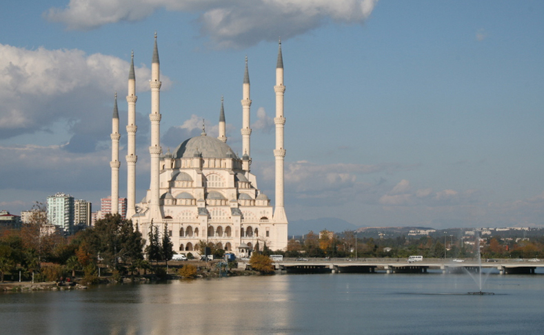 Sabanci Mosque